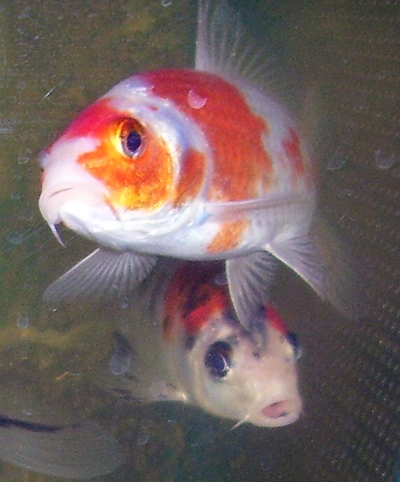 A Pair of Young Japanese Koi Carps.